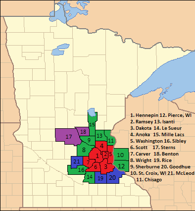 This a map of the 21 counties of the Minneapolis-St. Paul-St. Cloud Combined Statical Area as of 2013. The map is divided into 4 colors: Red=Urbanized counties that are under jurisdiction of the Metropolitan Council Green=Other counties included the Minneapolis-St. Paul-Bloomington Metropolitan Statistical Area Purple=Counties included in the St. Cloud Metropolitan Statistical Area Blue=Counties that are separate Micropolitan Statistical Areas Directory of counties: 1. Hennepin 12. Pierce, WI 2. Ramsey 13. Isanti 3. Dakota 14. Le Sueur 4. Anoka 15. Mille Lacs 5. Washington 16. Sibley 6. Scott 17. Stearns 7. Carver 18. Benton 8. Wright 19. Rice 9. Sherburne 20. Goodhue 10. St. Croix, WI 21. McLeod 11. Chisago